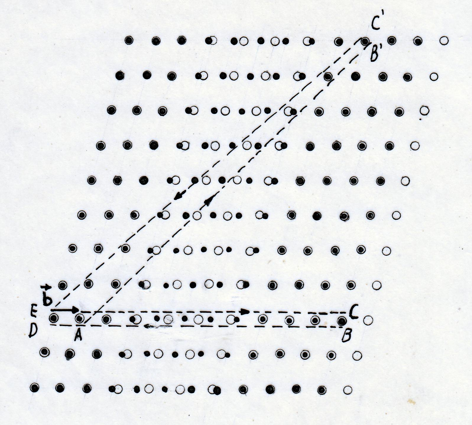 It is shown an edge dislocation in a triclinic lattice as projection on the glide plane. Lattice planes crossed by the dislocation line and not beeing parallel to the Burgers vector have a screwlike junction.